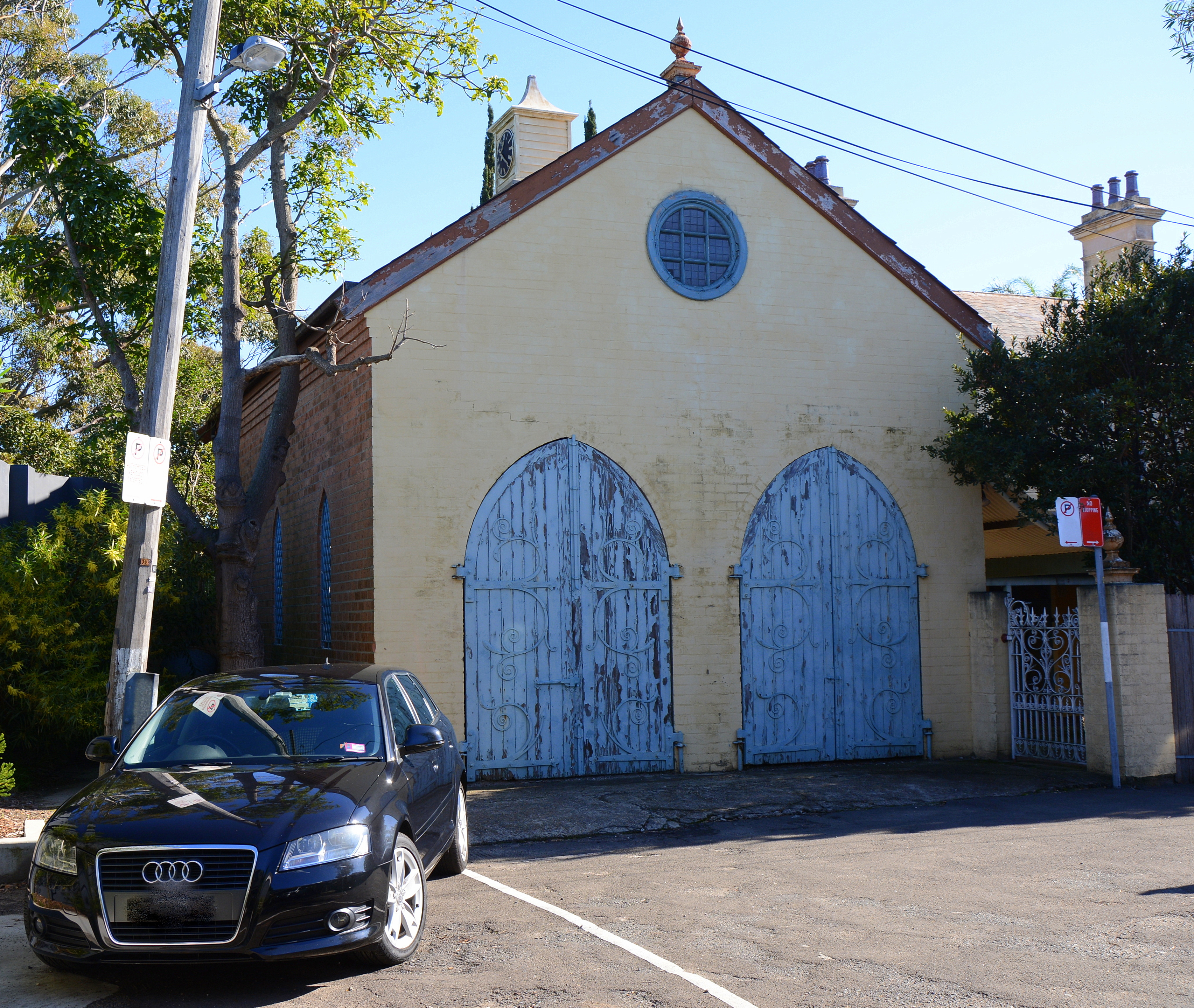 Tarella coachhouse, Amherst St, Cammeray, Sydney